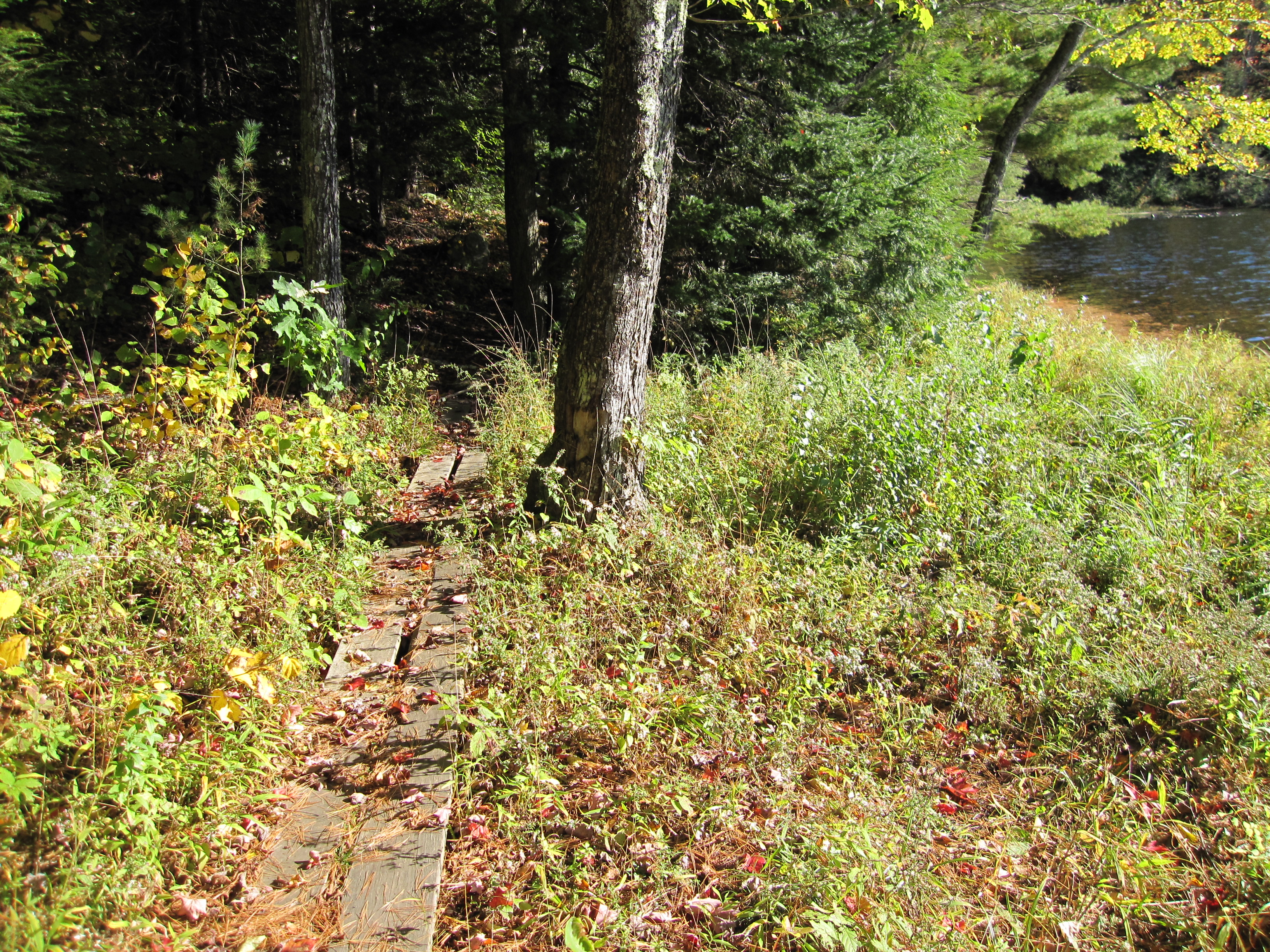 A walkway in Lowell State Park, on Lowell Lake in Londonderry Vermont.